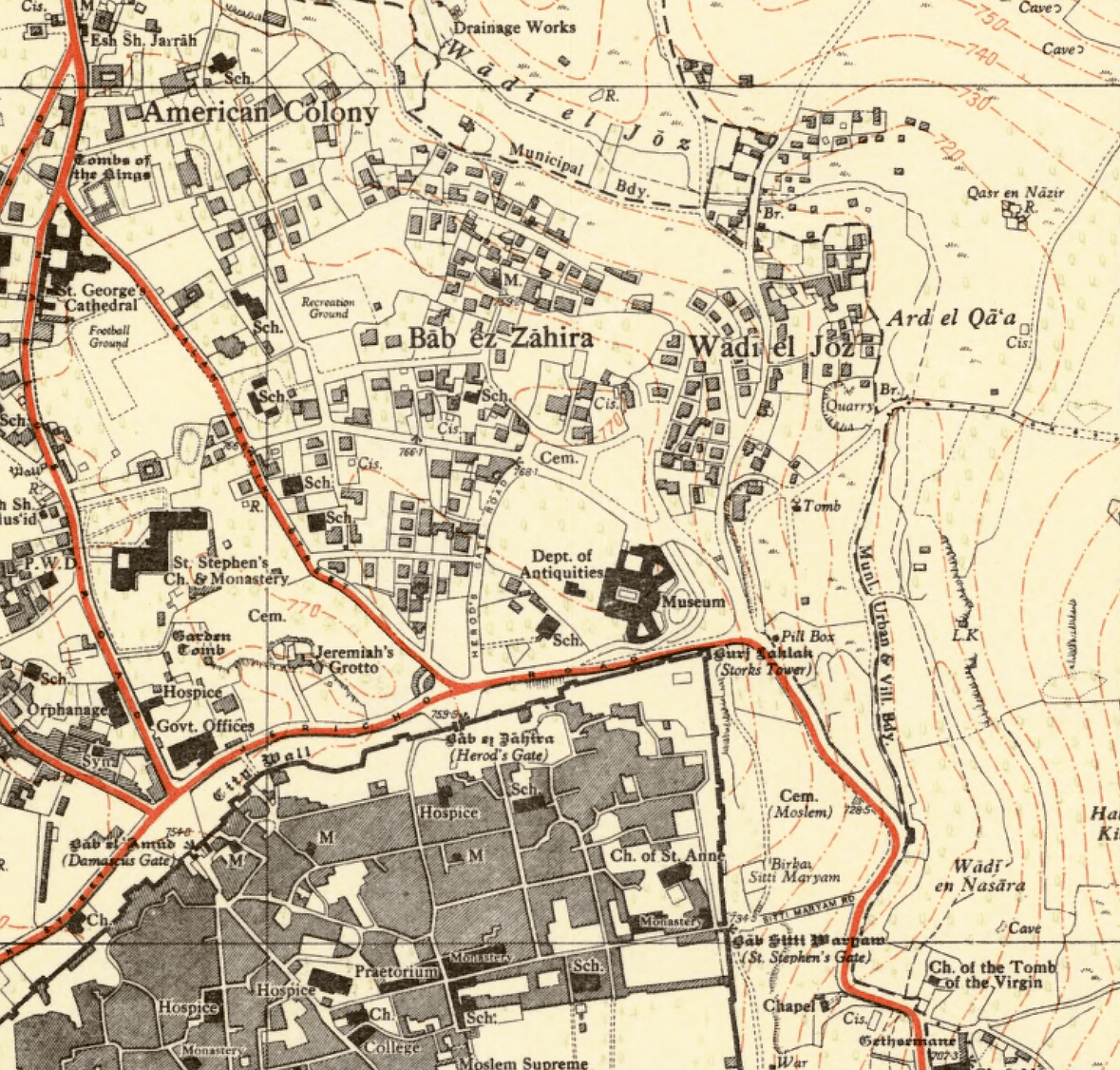 Wadi Al-Joz in Jerusalem, 1946. Portion of 1:10,000 map made by the Survey of Palestine, a department of the Government of Palestine.